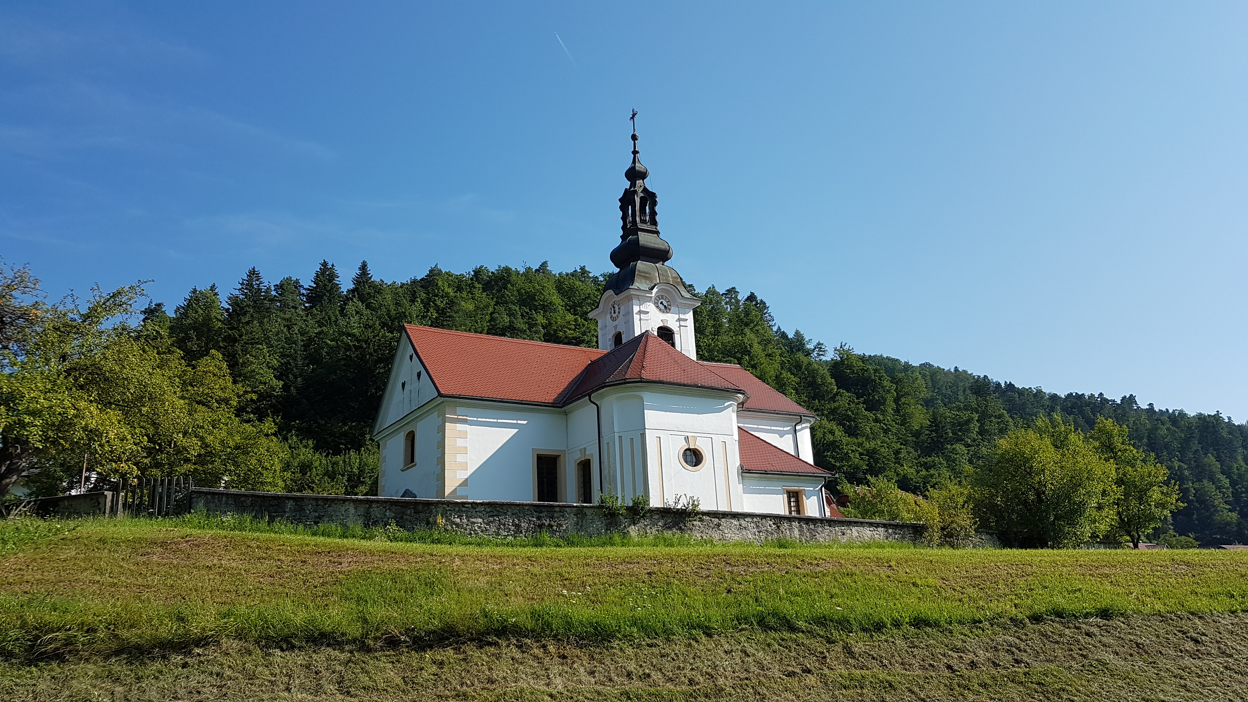 Saint John the Baptist Church, Šentjanž, Rečica ob Savinji Municipality, Slovenia. Photo taken from the road.